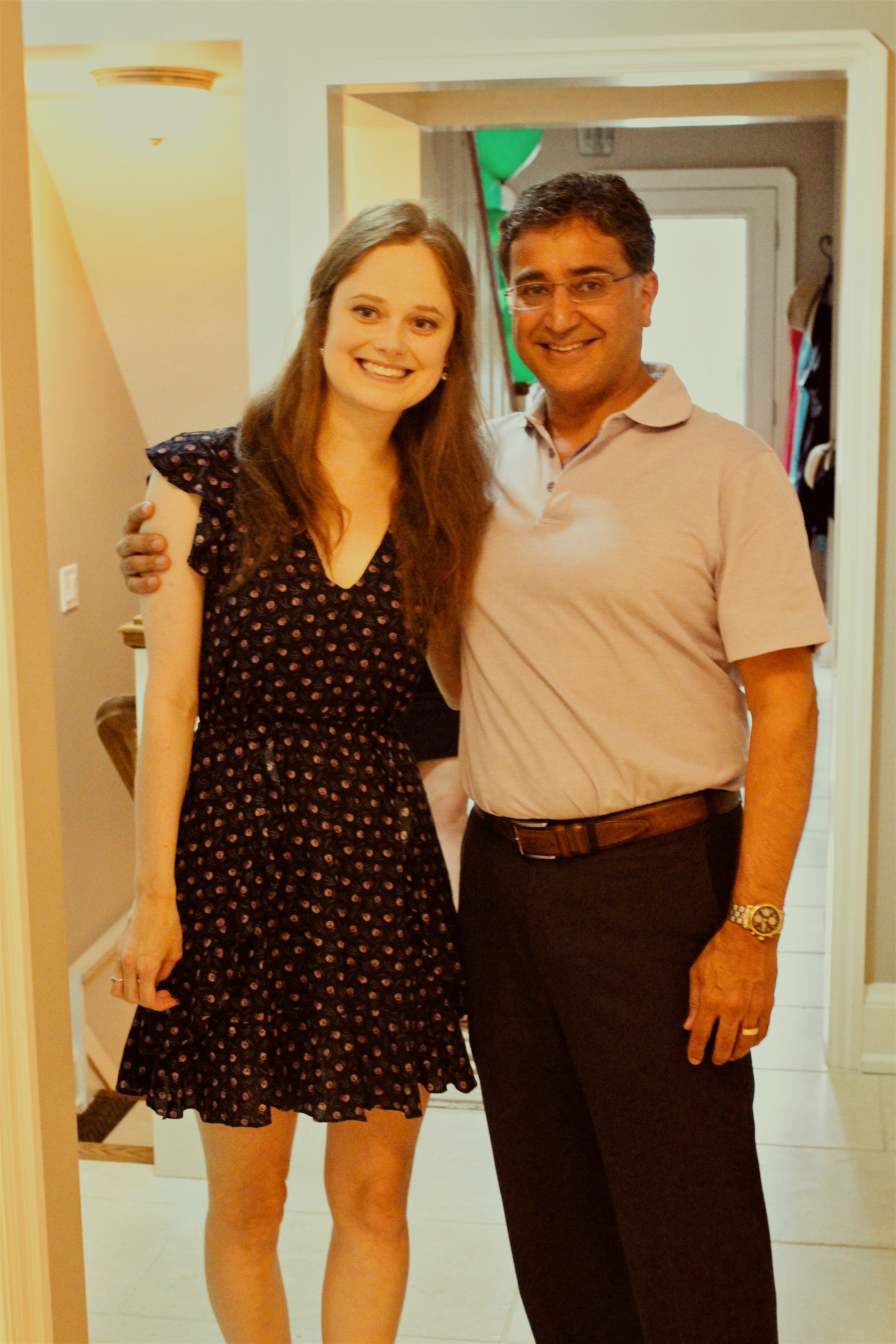 A celebration of 10 years post surgery